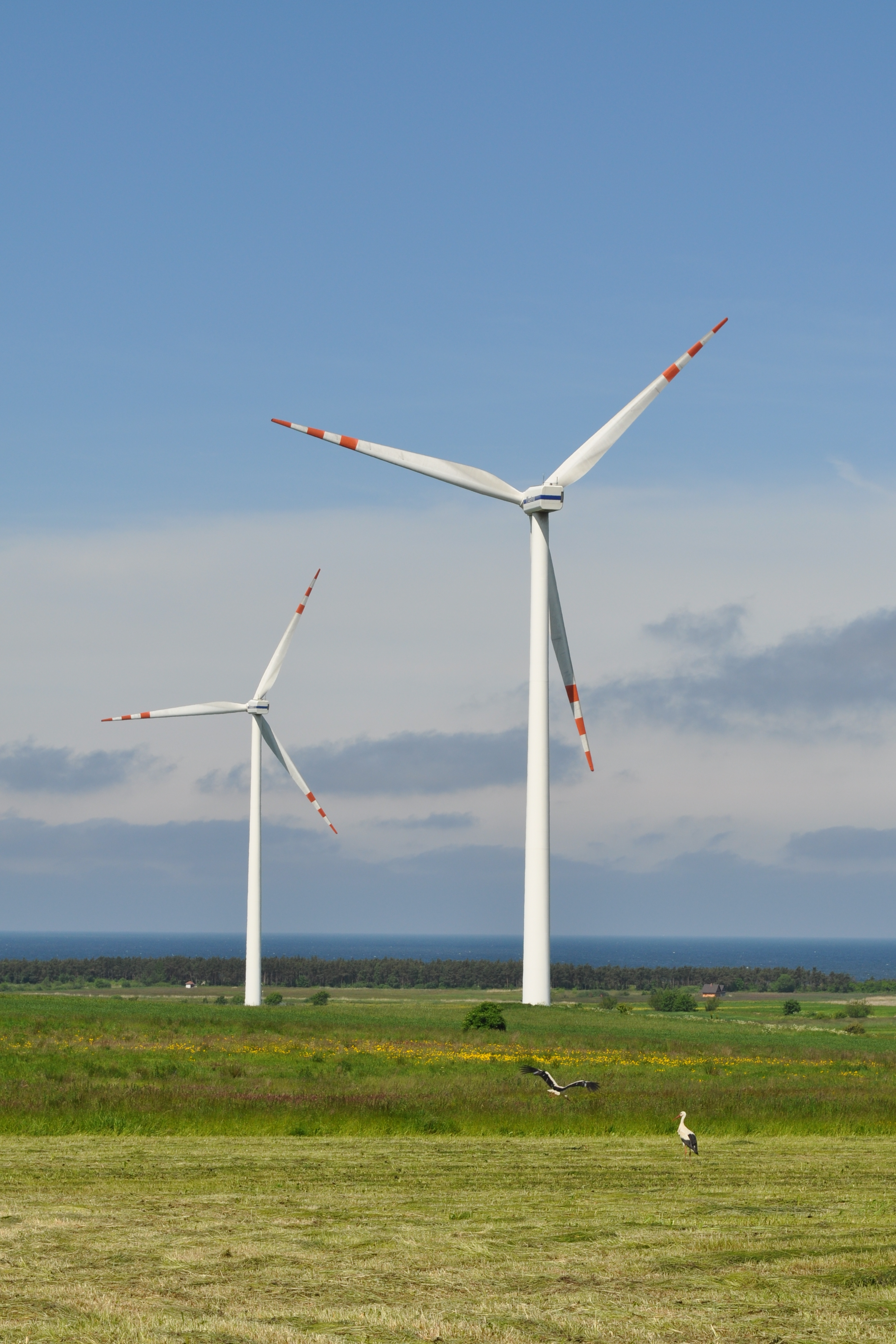 Wind turbines (Cisowo/Kopań, Poland)